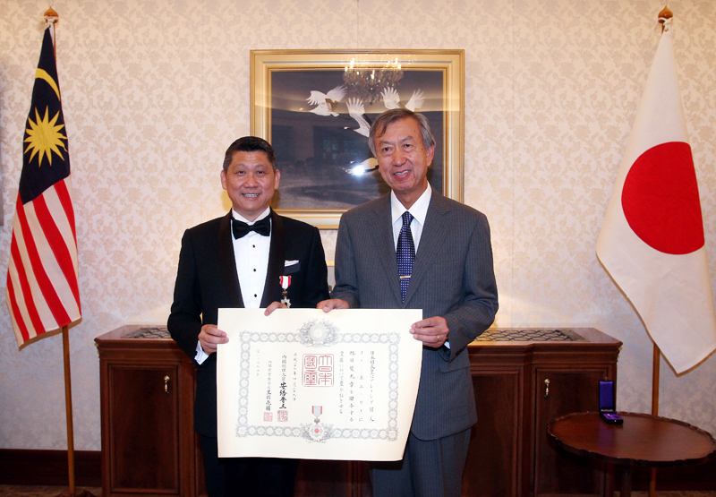 The Japanese Order of the Rising Sun, Gold and Silver Rays is being conferred to Lee Ee Hoe